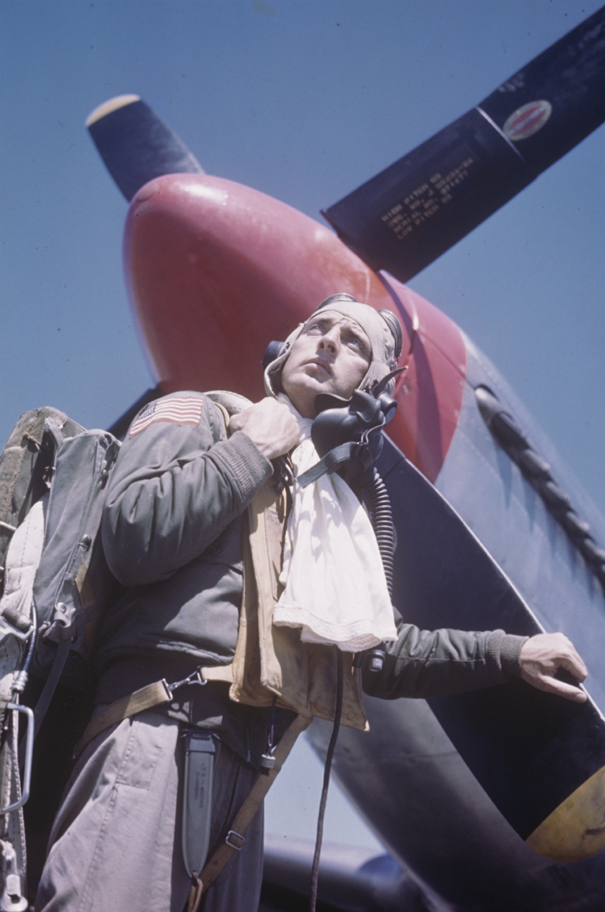 Col Herschel "Herky" Green of the 325th Fighter Group, 15th Air Force with his P-51 Mustang aircraft